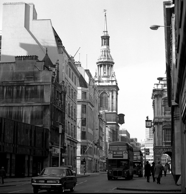 Cheapside and St. Mary-Le-Bow church, City of London Looking westward.